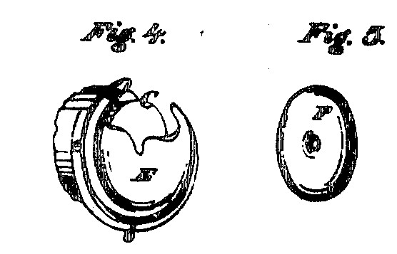 Figure 4 from US patent 9041, Allen B. Wilson, rotary hook sewing machine